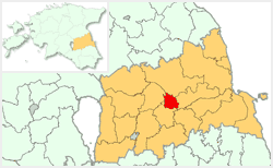 Location map of Tartu town, Estonia. This image was created by Senzeichi.